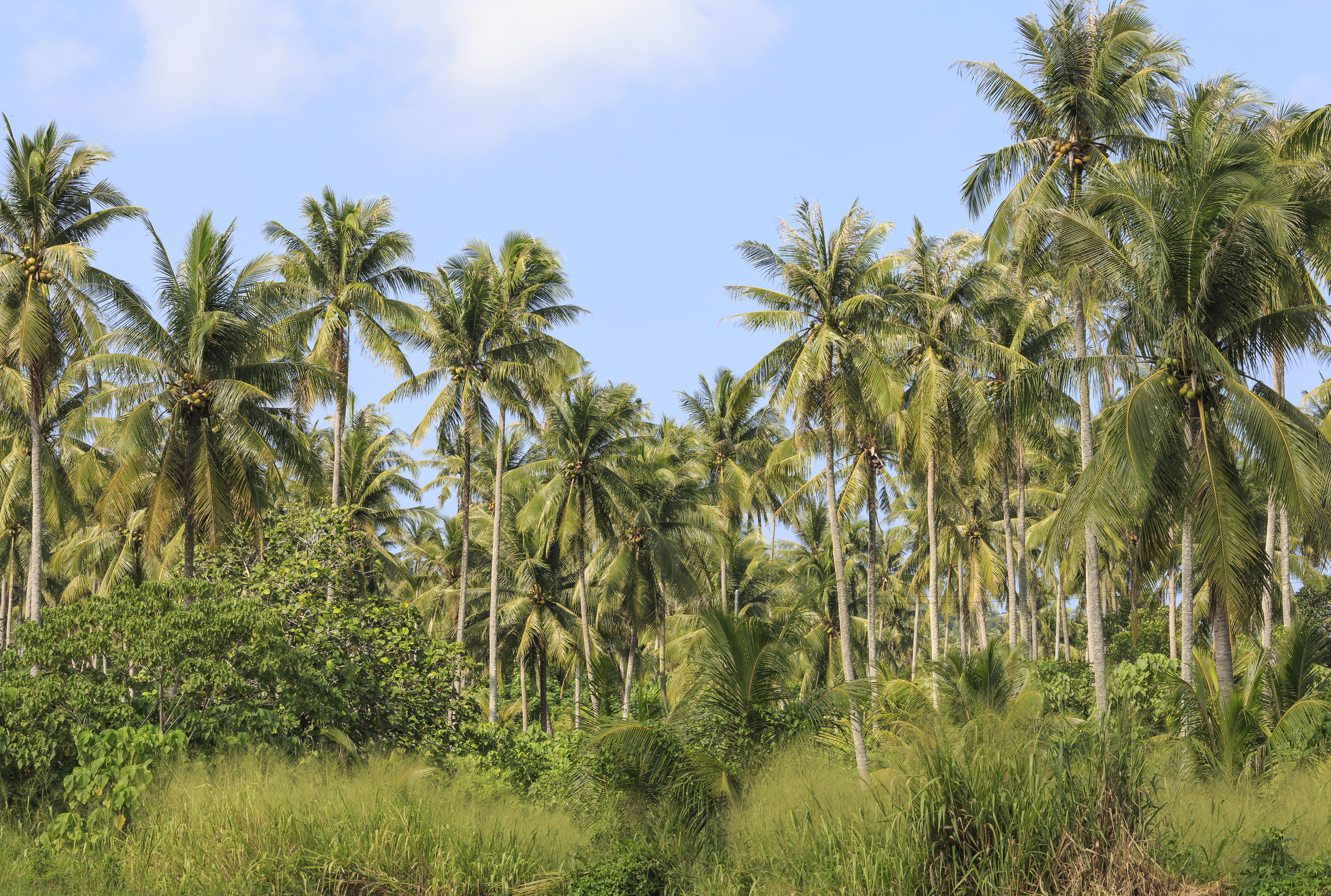 Tiga Papan, District Kudat, Sabah: A coconut plantation at Kg Tiga Papan